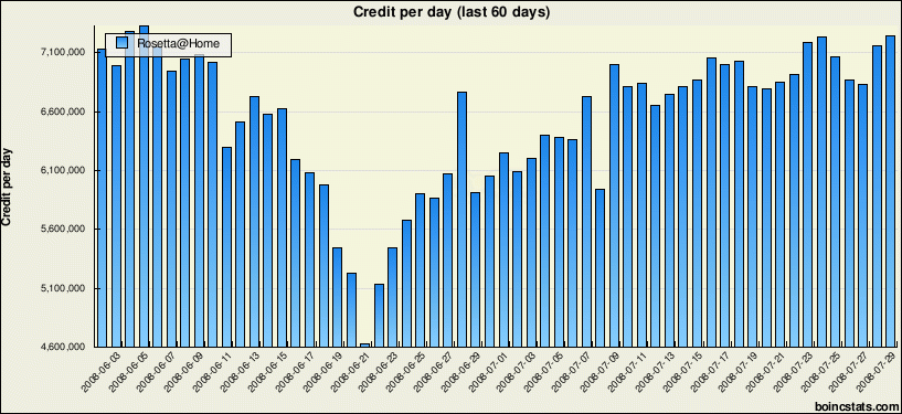 Bar chart showing Rosetta@home credit for all users for July 29, 2008 and the previous 59 days. Similar charts available at [1].